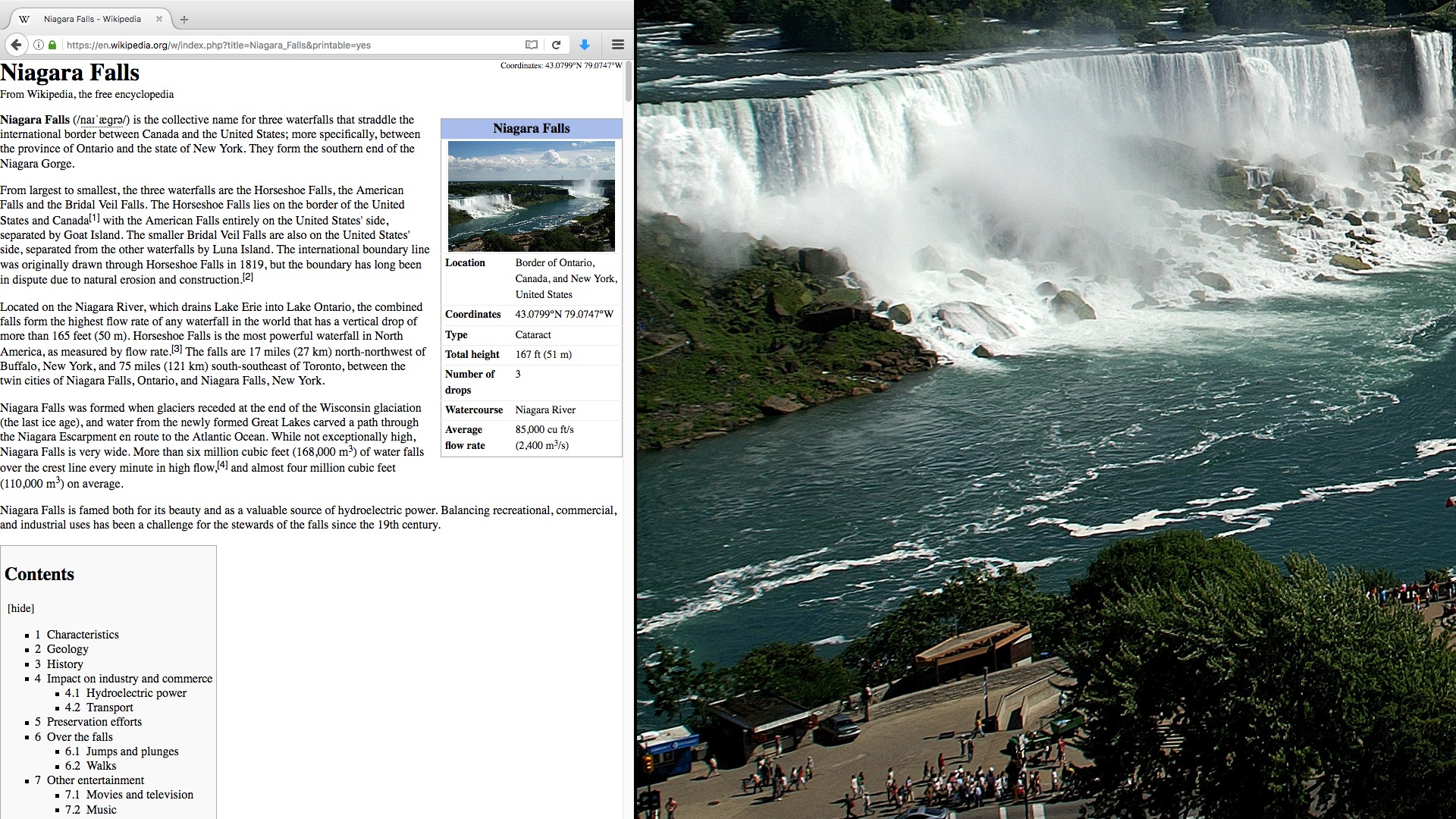 The Split View functionality is introduced in OS X El Capitan and also available in subsequent macOS releases. Firefox and Preview are demonstrated using free content.